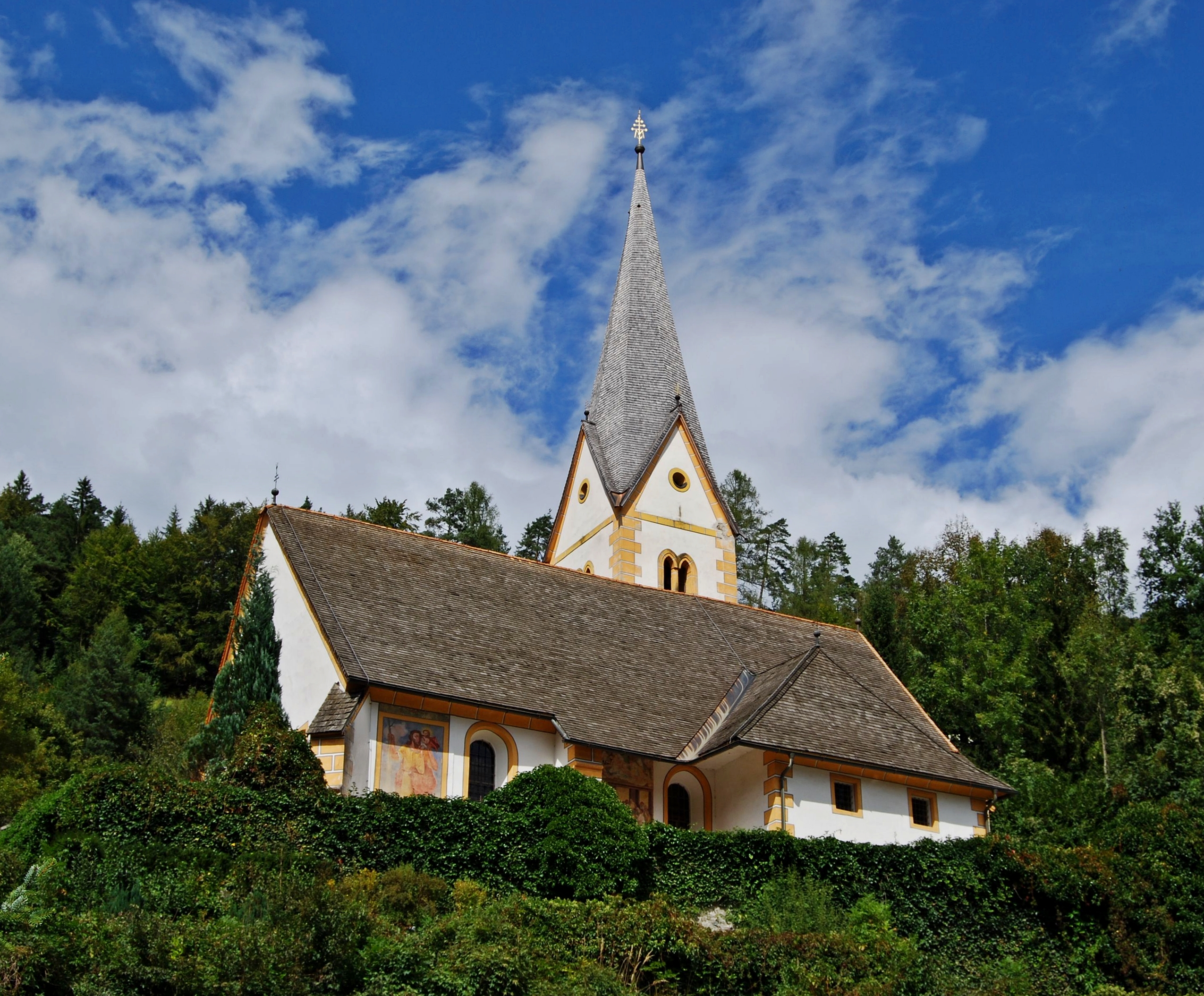 Pilgrimage church Maria Dorn of Eisenkappel-Vellach, Carinthia.